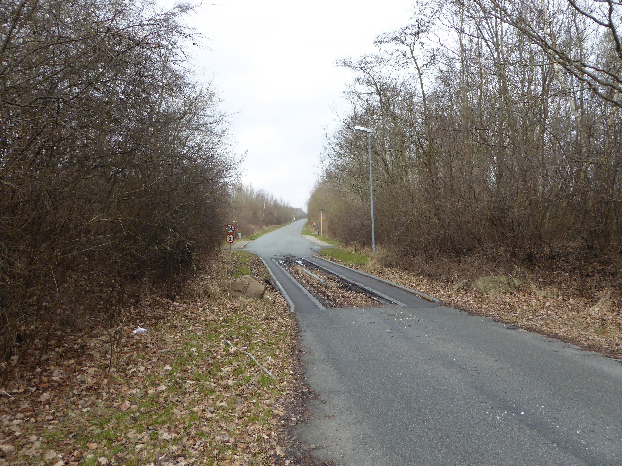 Skejby Busvej, a street only for buses, in northern Aarhus in Denmark.